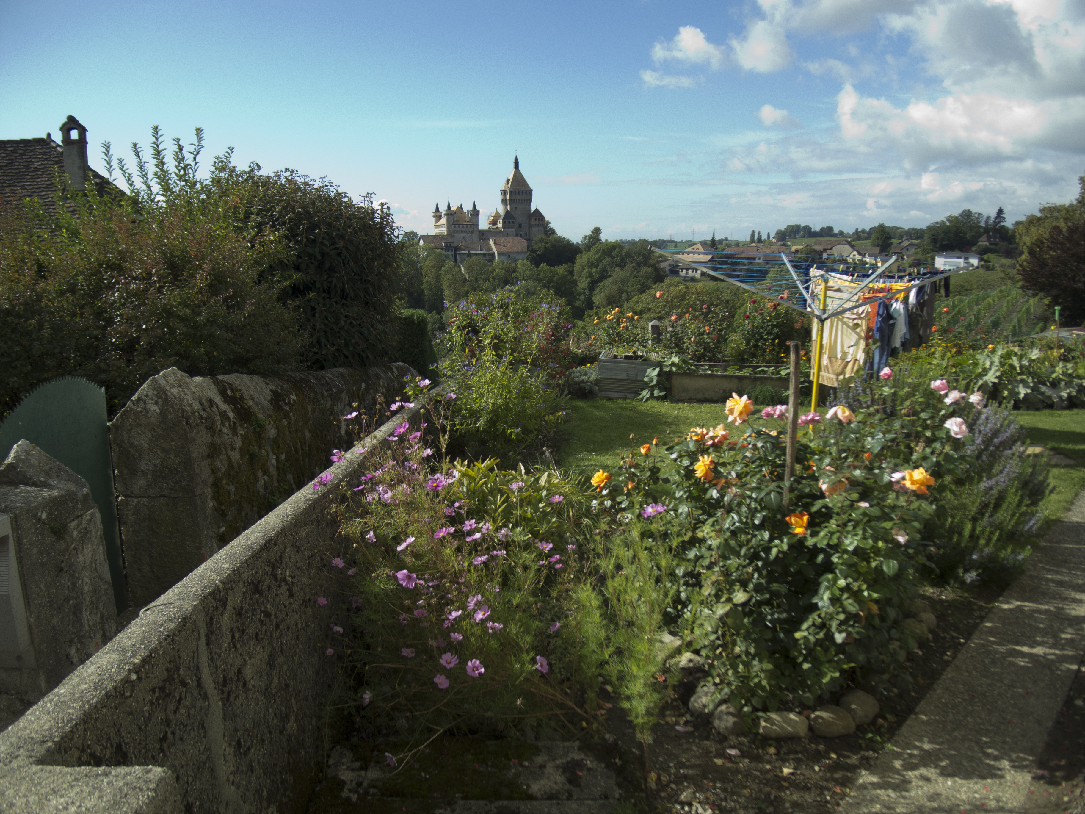 Near the borders of Vufflens-le-Château, Chigny and Monnaz in Vaud, Switzerland